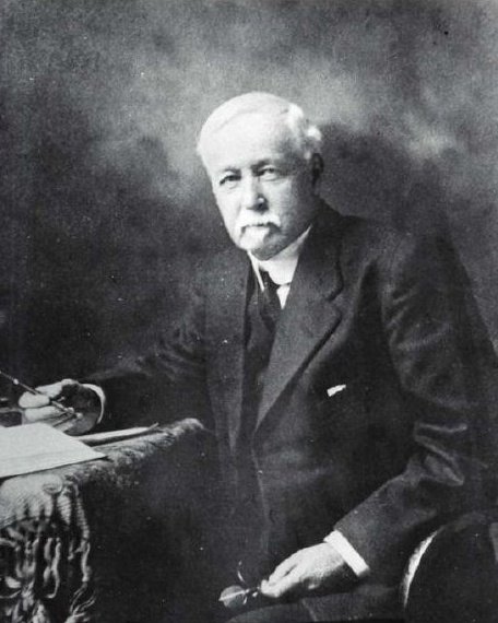 Photographic portrait of Robert Thomas Barton, as Virginia lawyer and political figure